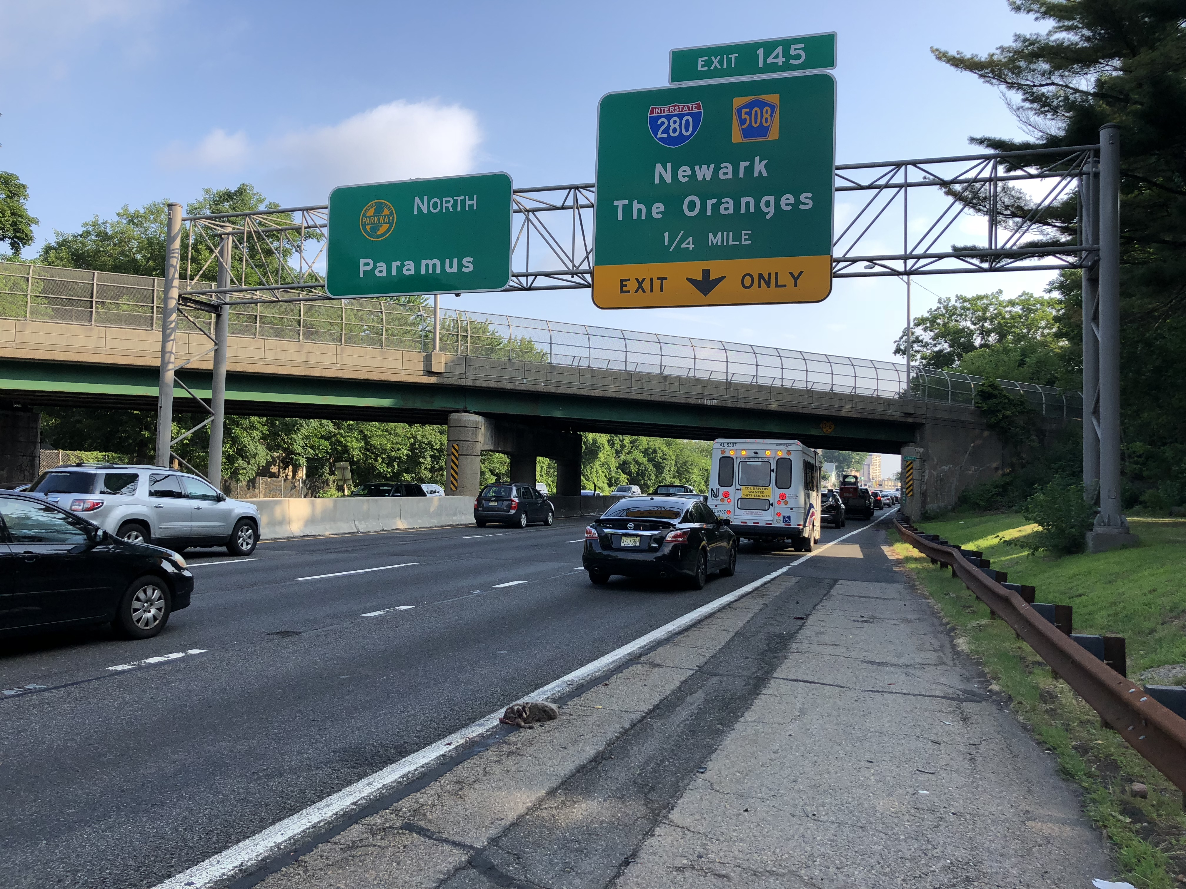 View north along New Jersey State Route 444 (Garden State Parkway) just south of Exit 145 (Interstate 280, Essex County Route 508, Newark, The Oranges) on the border of Newark and East Orange in Essex County, New Jersey